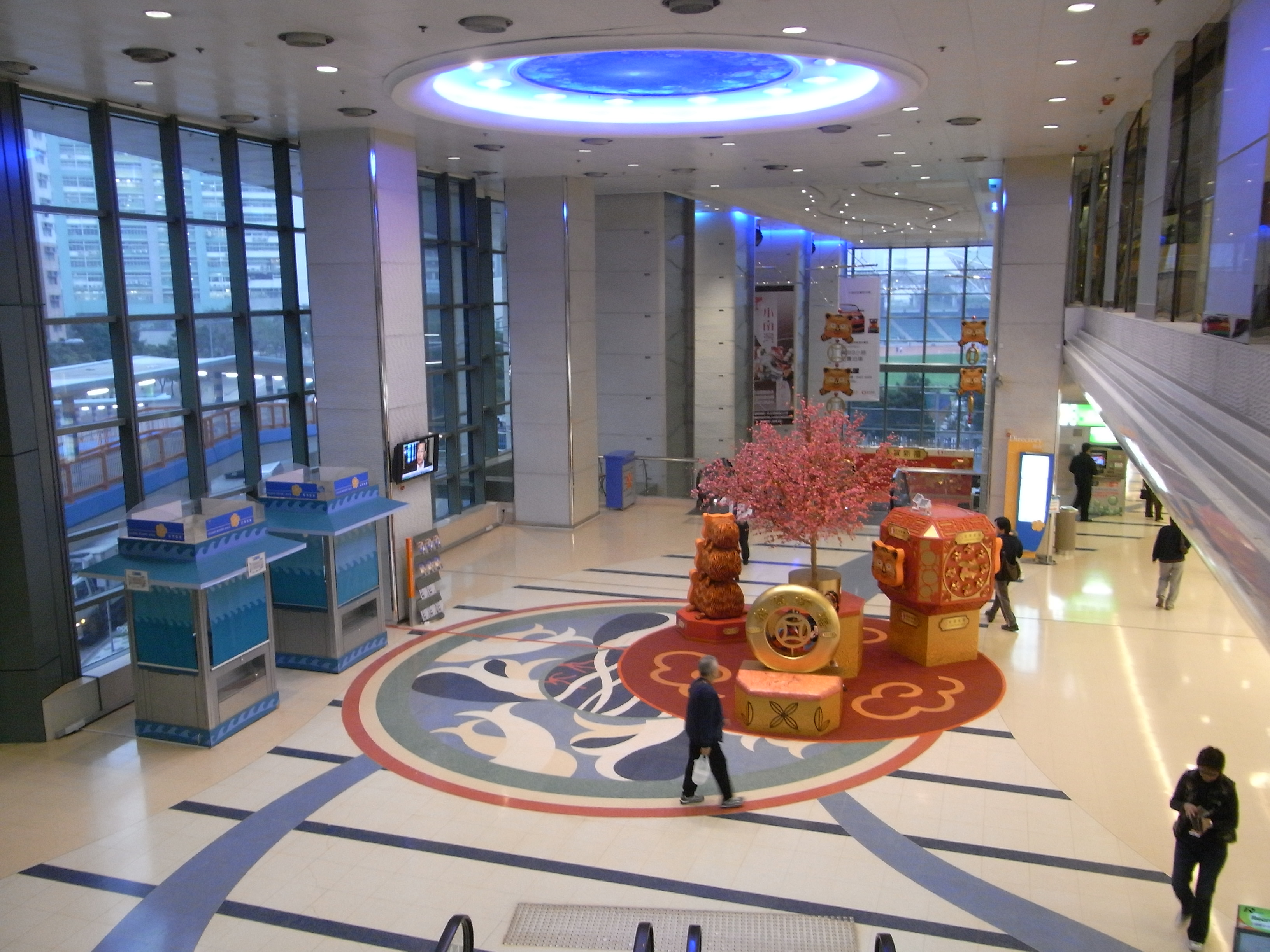 小西灣 藍灣半島商場內景